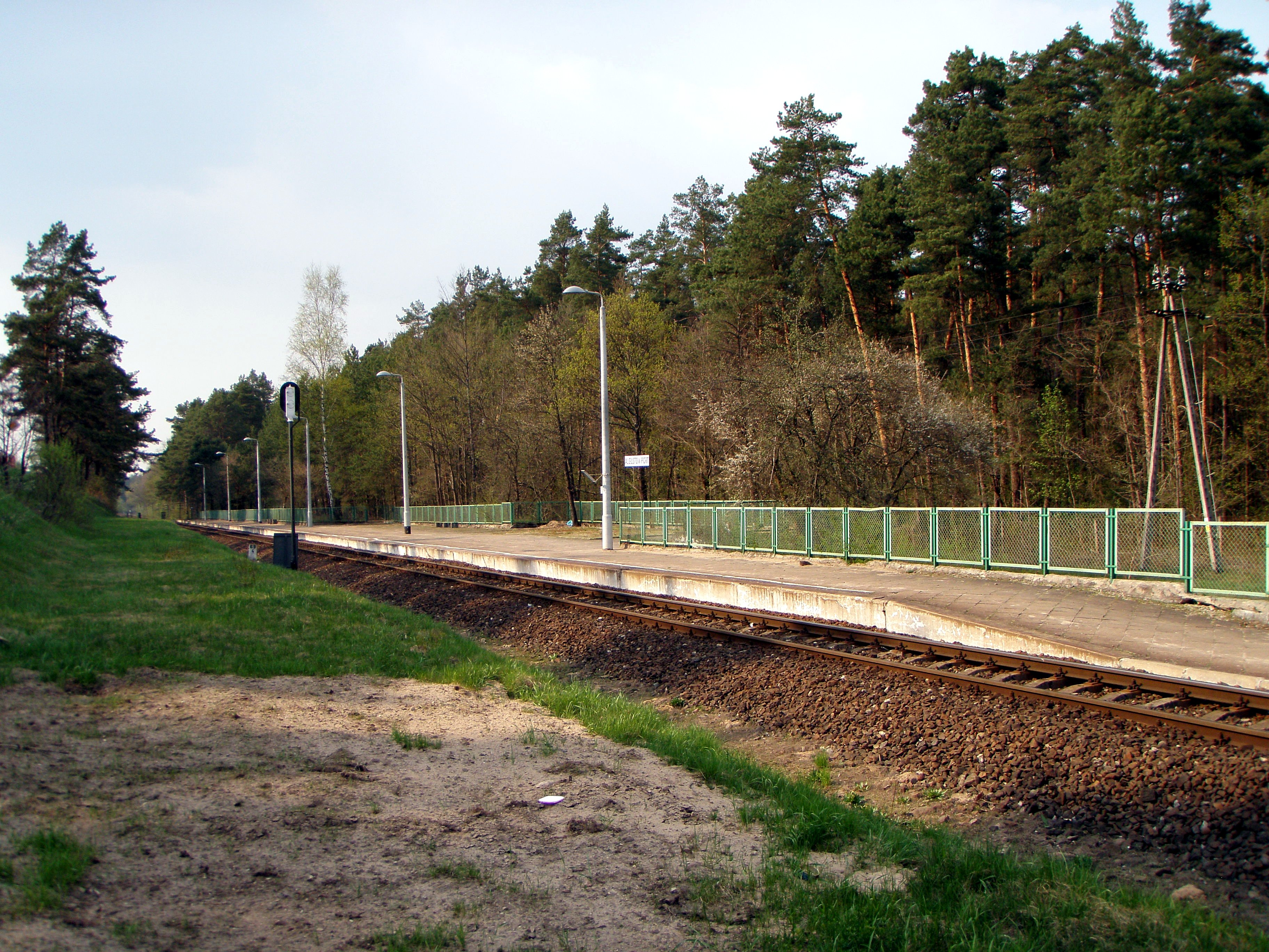 Augustów Port train stop, Poland.